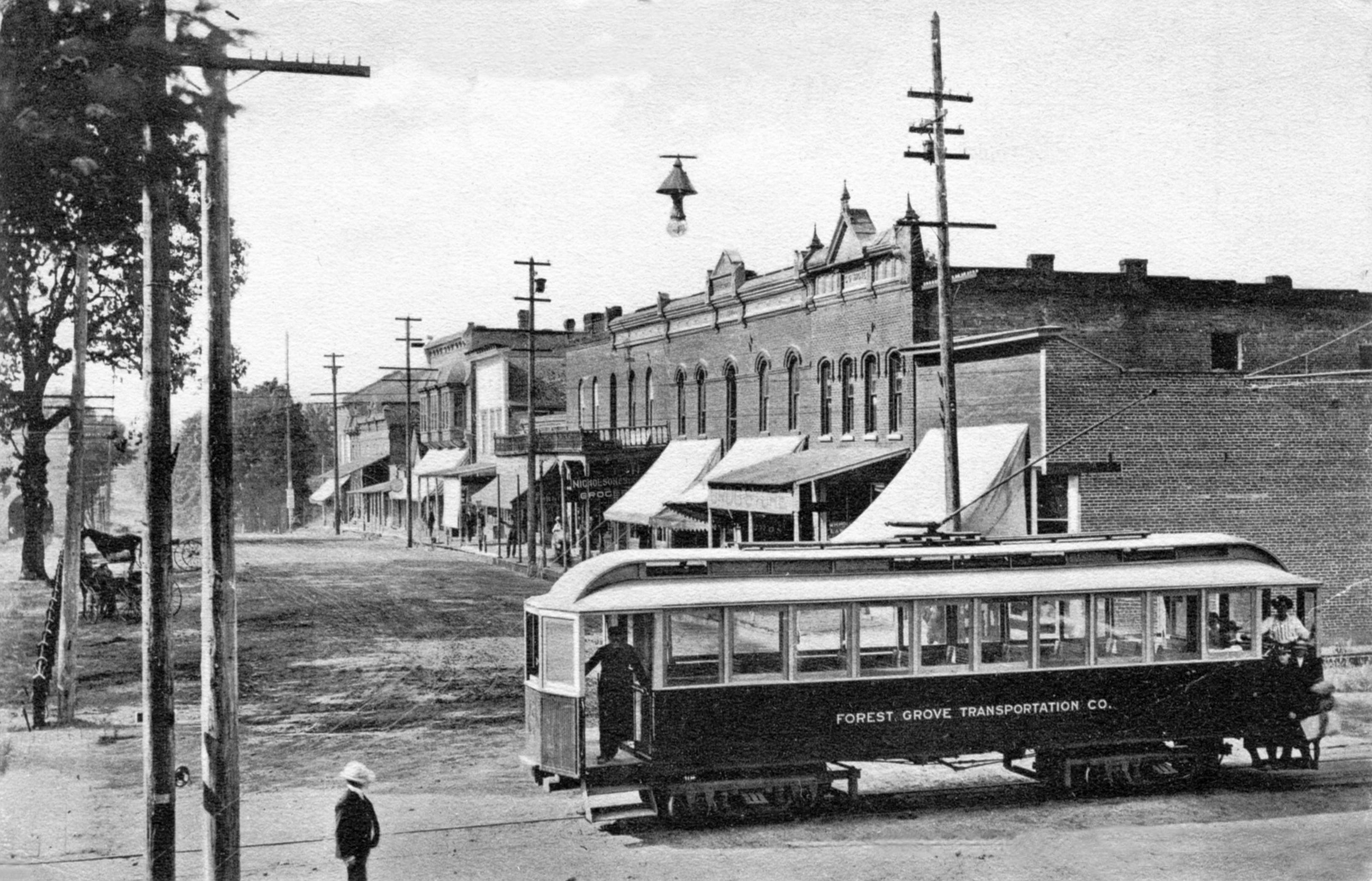 Original Collection: Gerald W. Williams Collection, 1855-2007 Item Number: WilliamsG: WVforestgrovestreet You can find this image by searching for the item number by clicking here. Want more? You can find more digital resources online. We're happy for you to share this digital image within the spirit of The Commons; however, certain restrictions on high quality reproductions of the original physical version may apply. To read more about what “no known restrictions” means, please visit the Special Collections & Archives website, or contact staff at the OSU Special Collections & Archives Research Center for details.